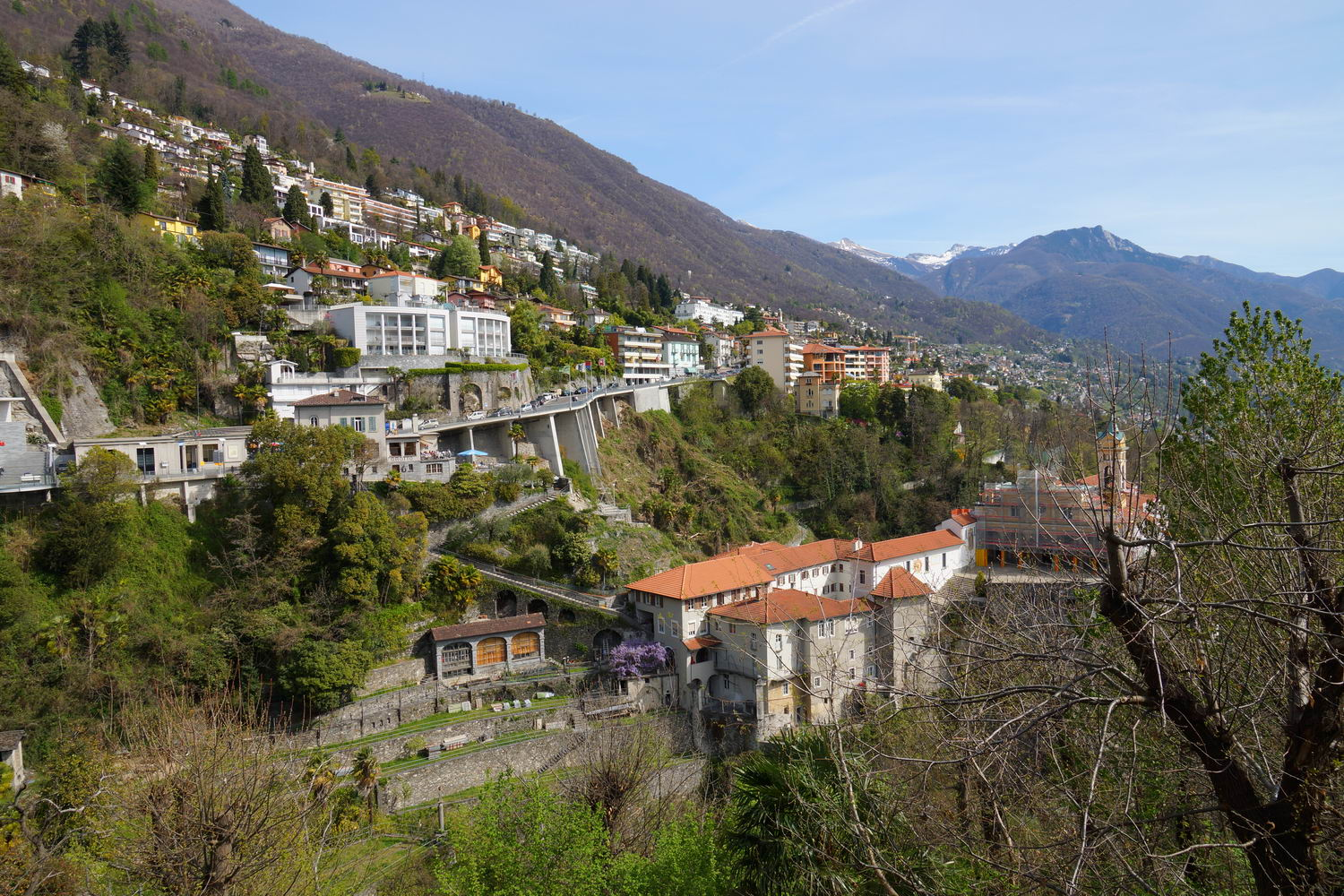 Locarno, Switzerland